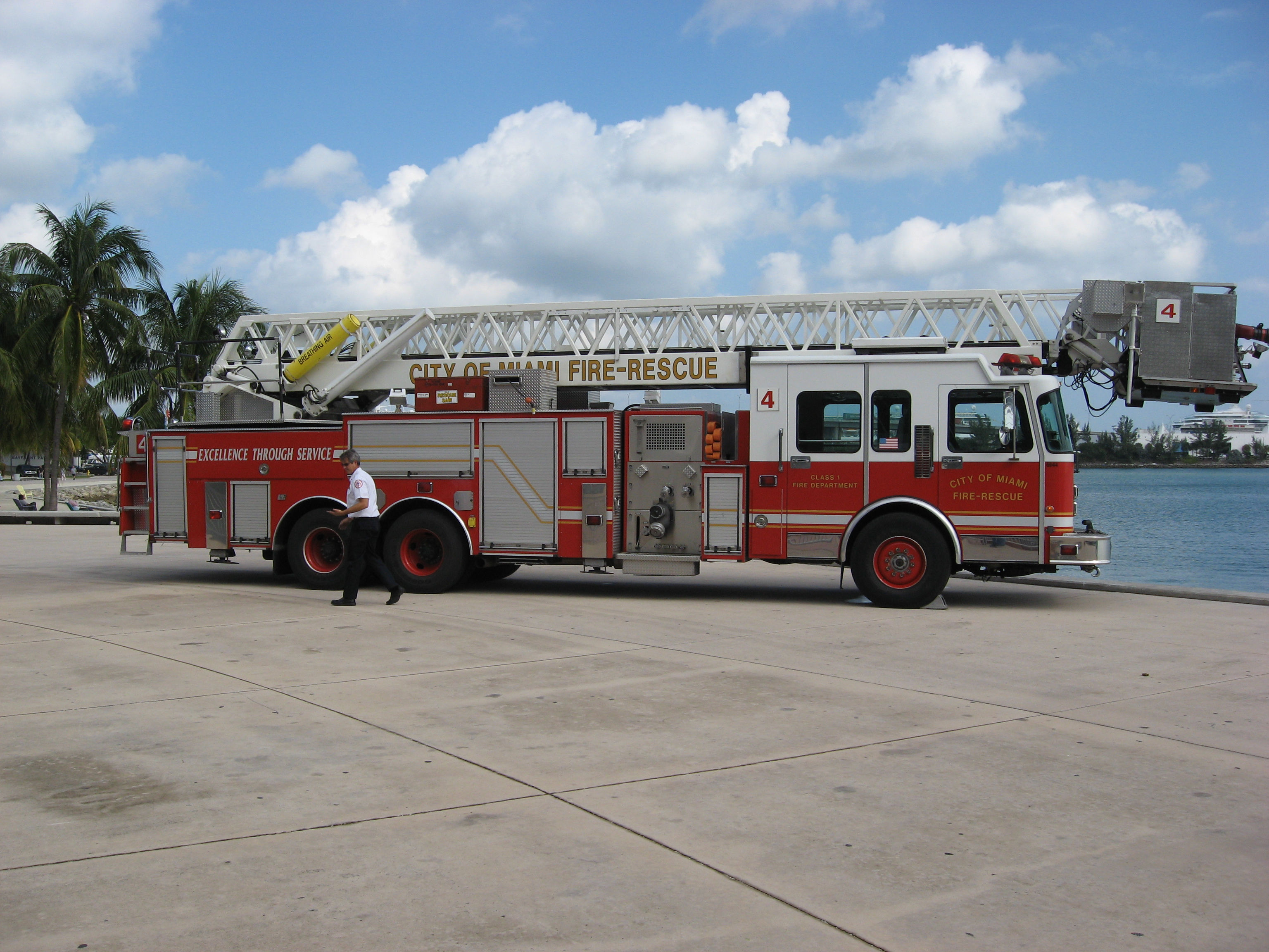 City of Miami Fire Rescue truck at the beach for some reason.